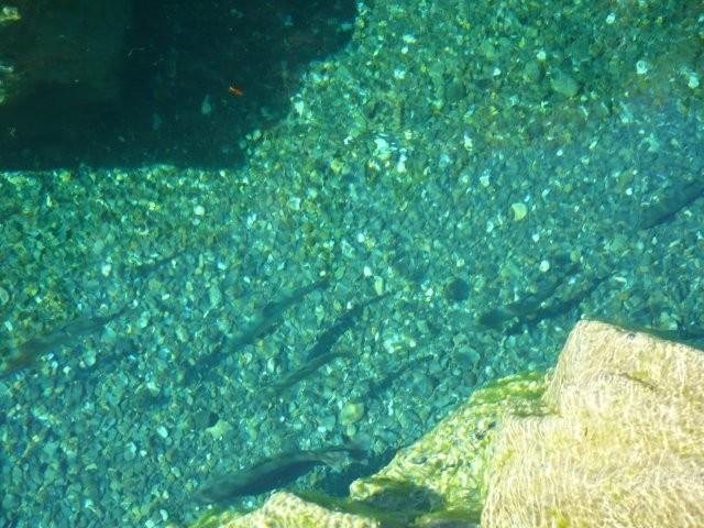 Almost each year for the past 10 years, I went to a salon fishing trip with my father on the 3 Pabos Rivers near Chandler in gaspesia, Québec. I took a lot of photos of the 3 rivers. I took the pictures myself.